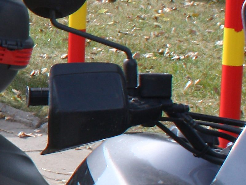 Handbars, handguards